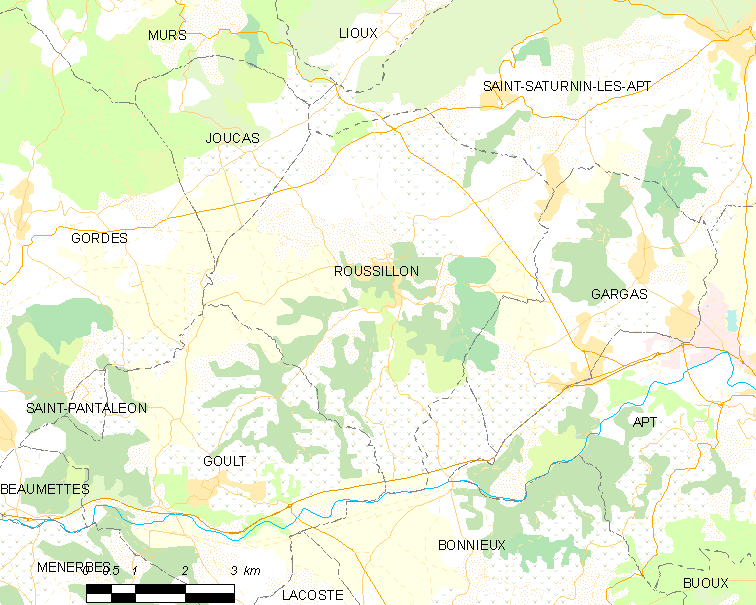 Map of French municipality Roussillon